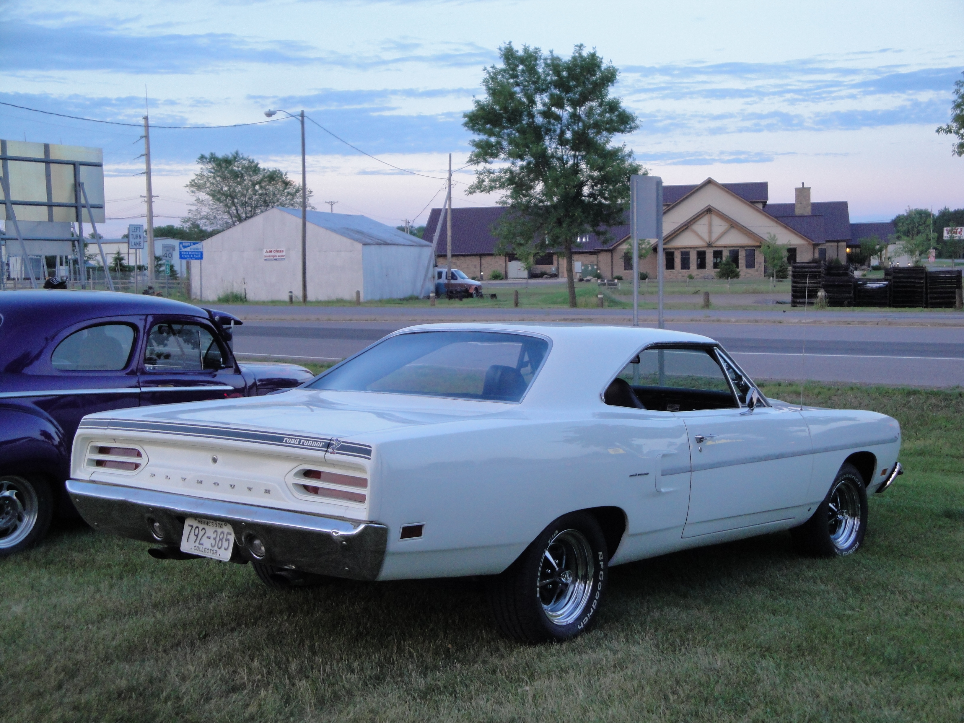 70 Plymouth Road Runner